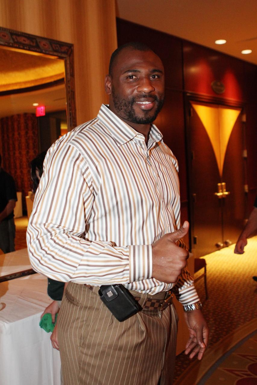 New York Giants running back Brandon Jacobs at the 2011 Teddy Dinner hosted by the Dr. Theodore A. Atlas Foundation.